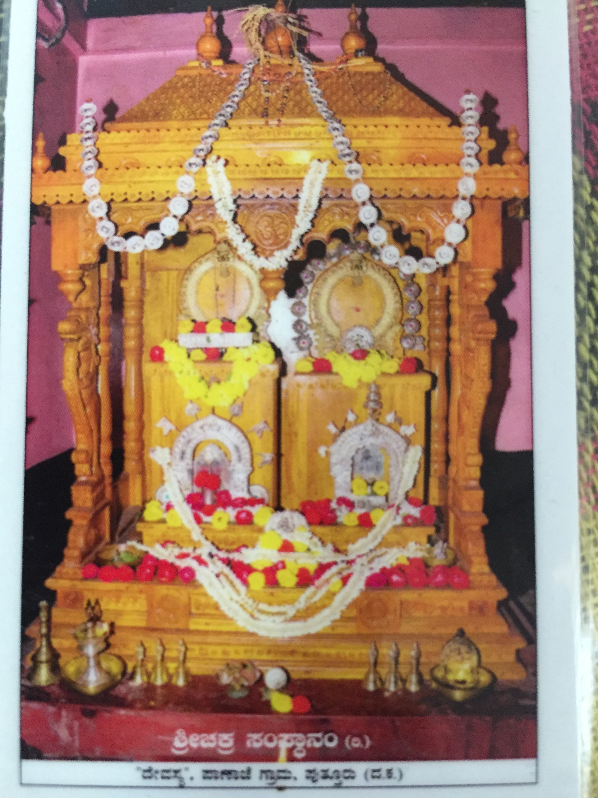 Rakteswari temple following dakshinachara